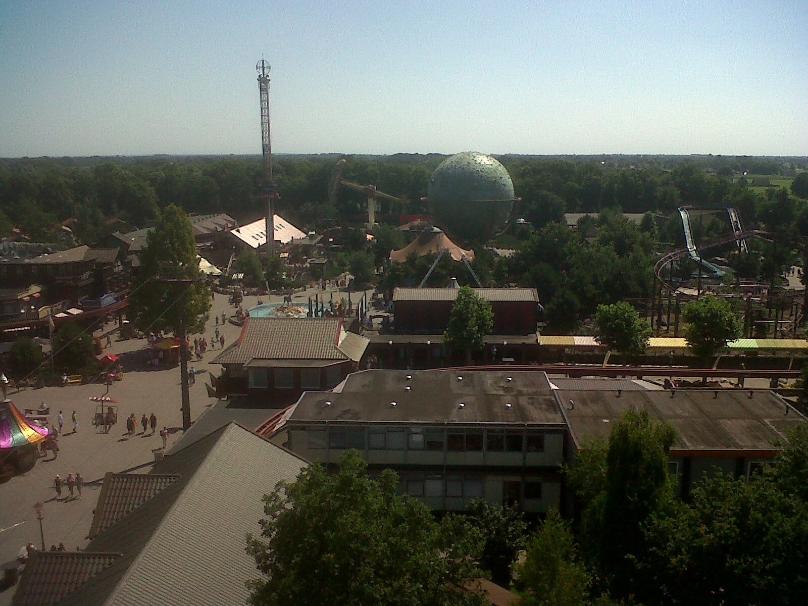 One part of Themepark & Resort Slagharen from the Big Wheel